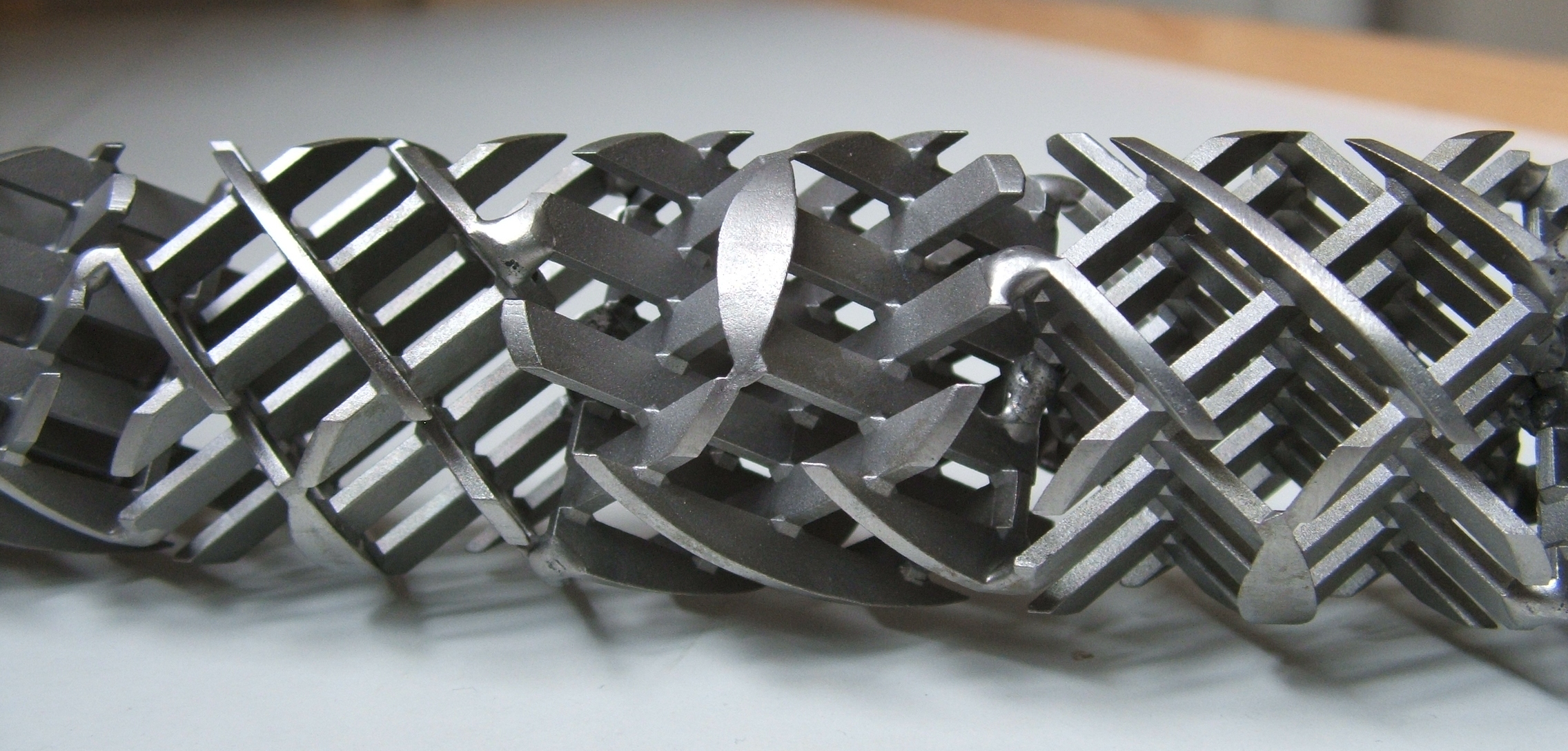 A industrial static mixer